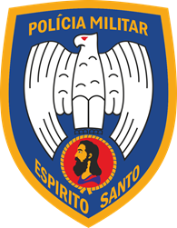 Escudo Oficial da PMES